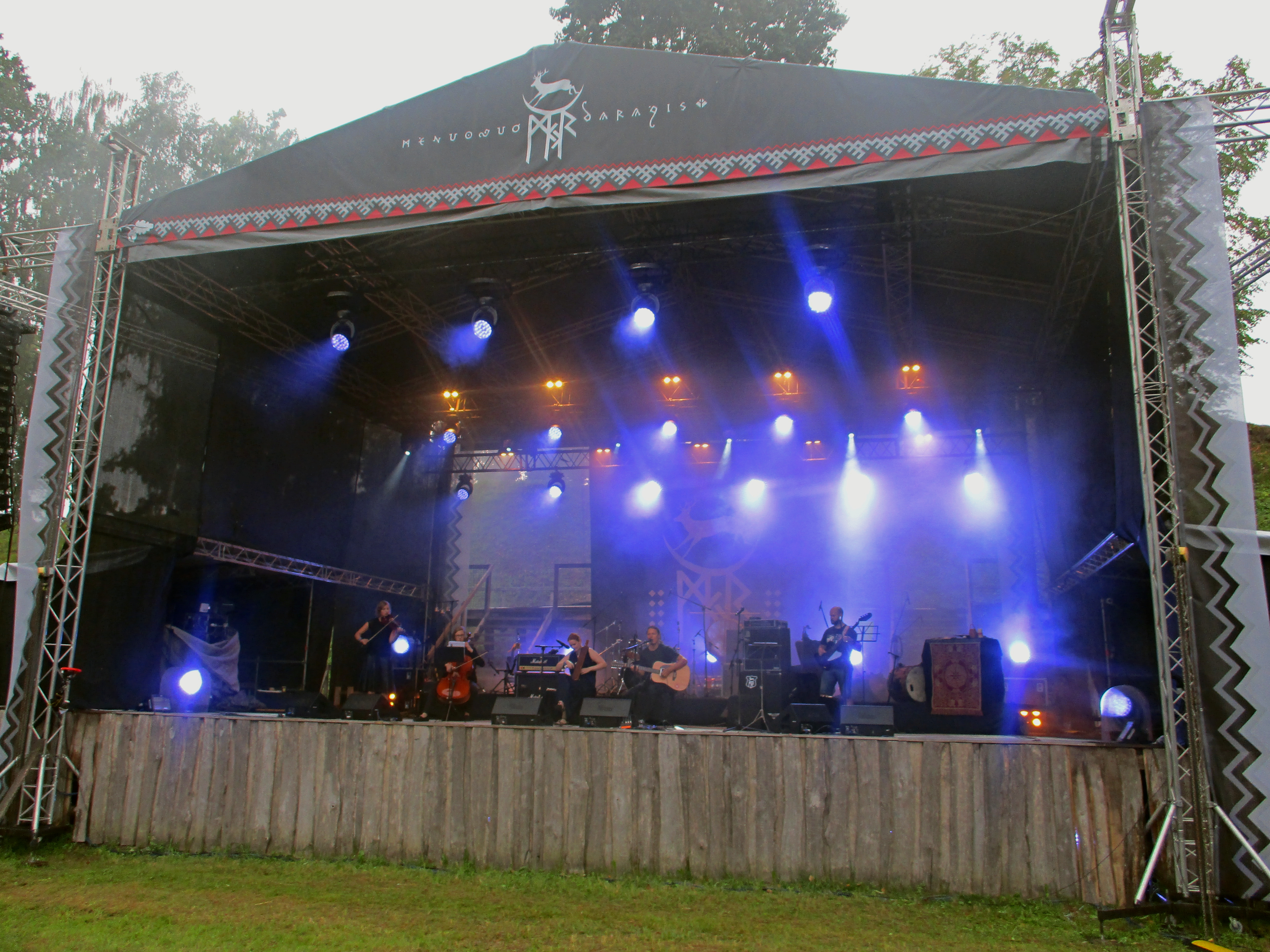 Latvian neo-folk band Ēnu kaleidoskops performing on the Mėnuo Juodaragis Great Heavenly Stage, August 25, 2018.